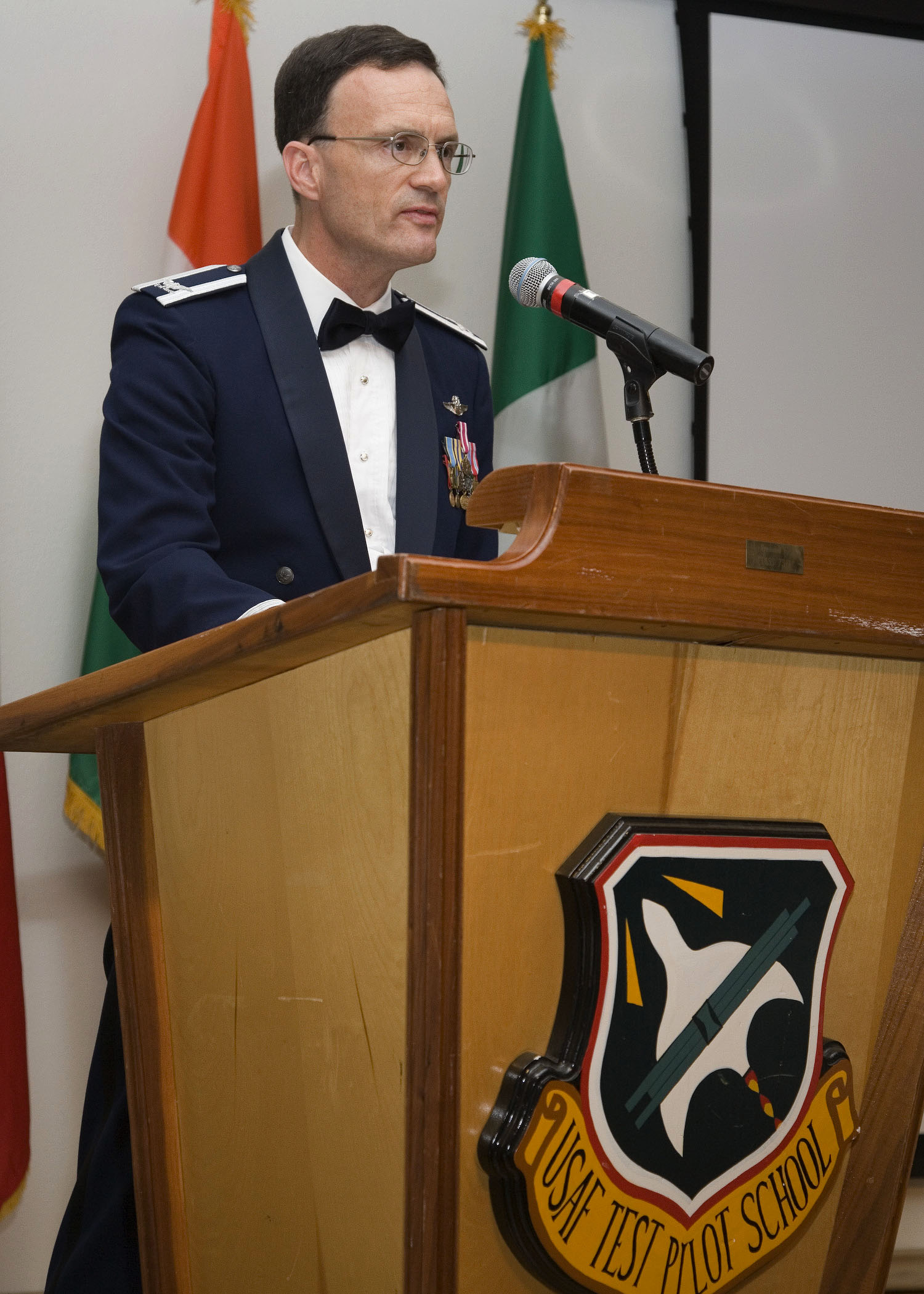 Col. Mike Luallen, U.S. Air Force Test Pilot School commandant, speaks to the audience during the school's Class 07B graduation ceremony at Club Muroc here June 7. The Test Pilot School achieved a milestone by officially granting master's degrees to its graduating students.